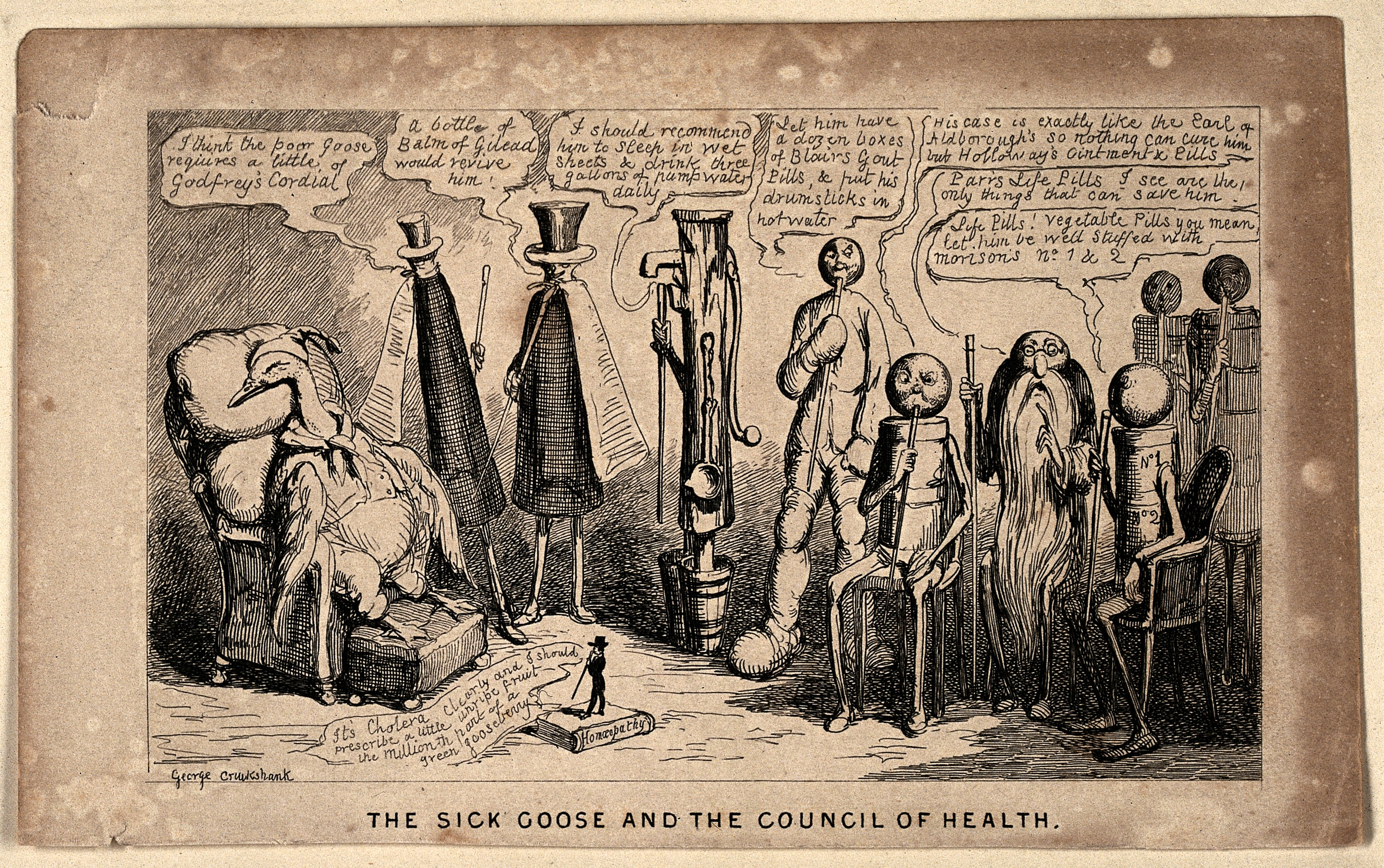 A large group of doctors deliberating around a patient; presented by figures bearing the characteristics of the cures they are prescribing surrounding a goose. Etching by G. Cruikshank. Iconographic Collections Keywords: James Morison; George Cruikshank